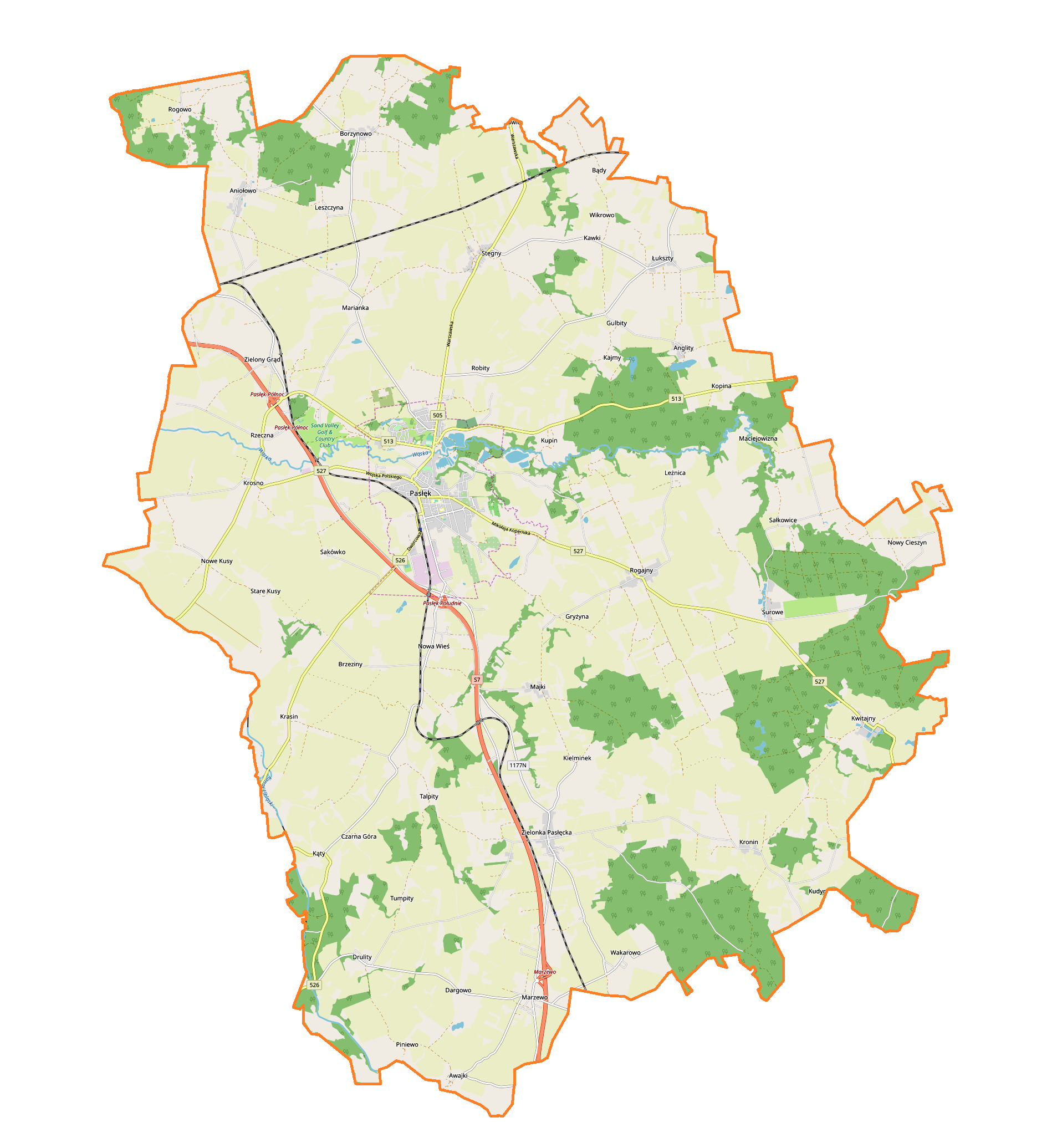 Location map